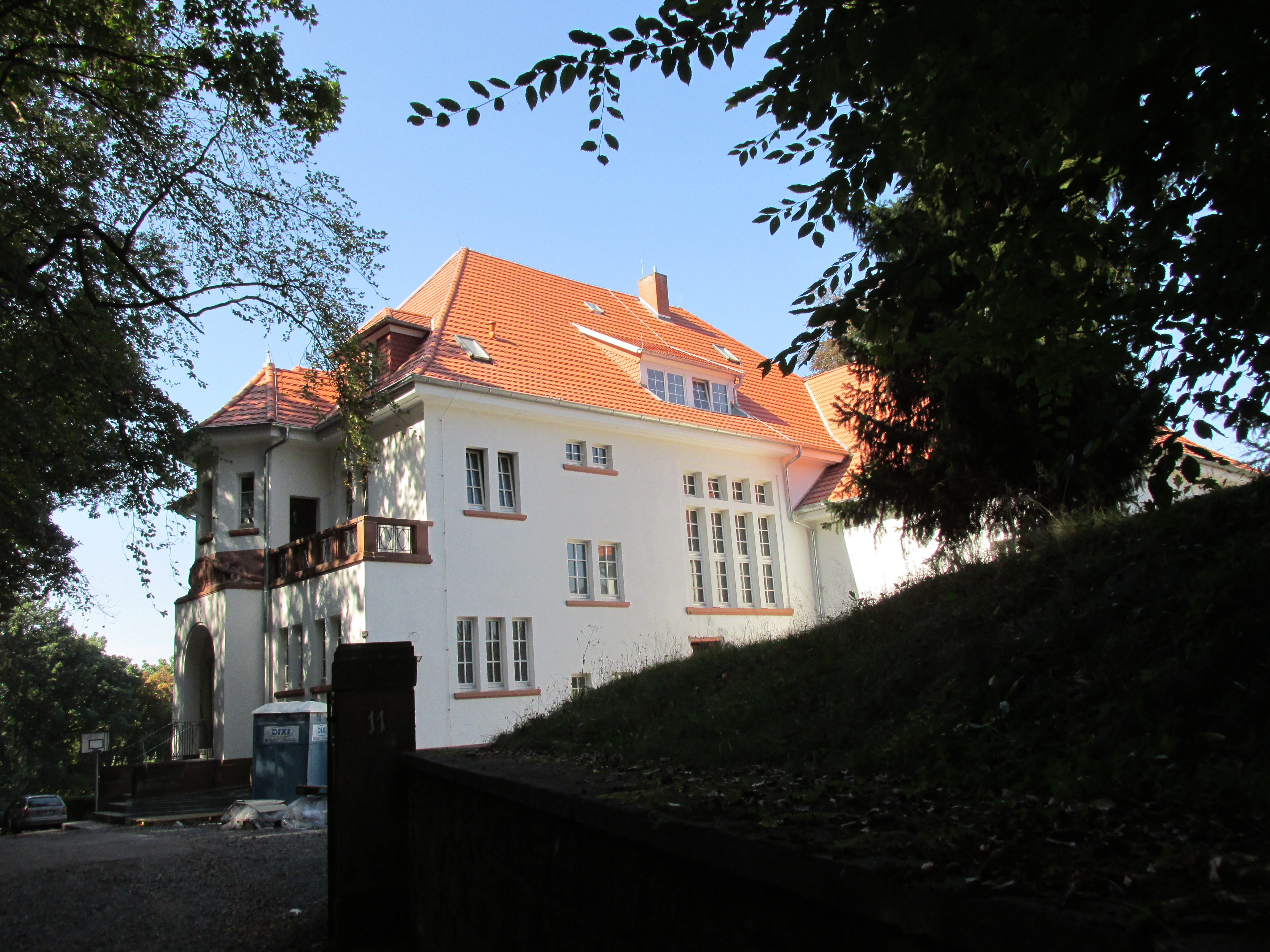 Building of Akademische Turnverbindung, Marburg, Germany